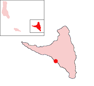 Pomoni, Anjouan, Comoros Location Map; created with the GIMP. Made by User:Acntx.